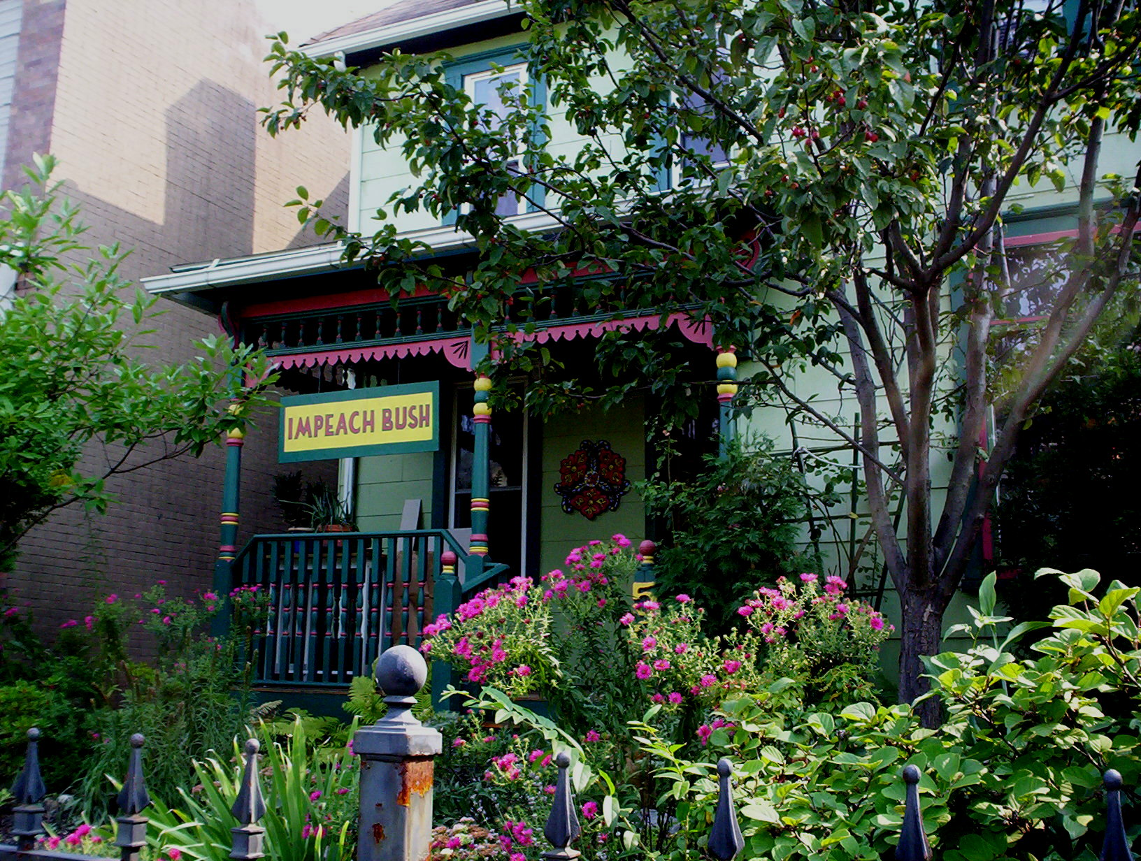 Impeach sign